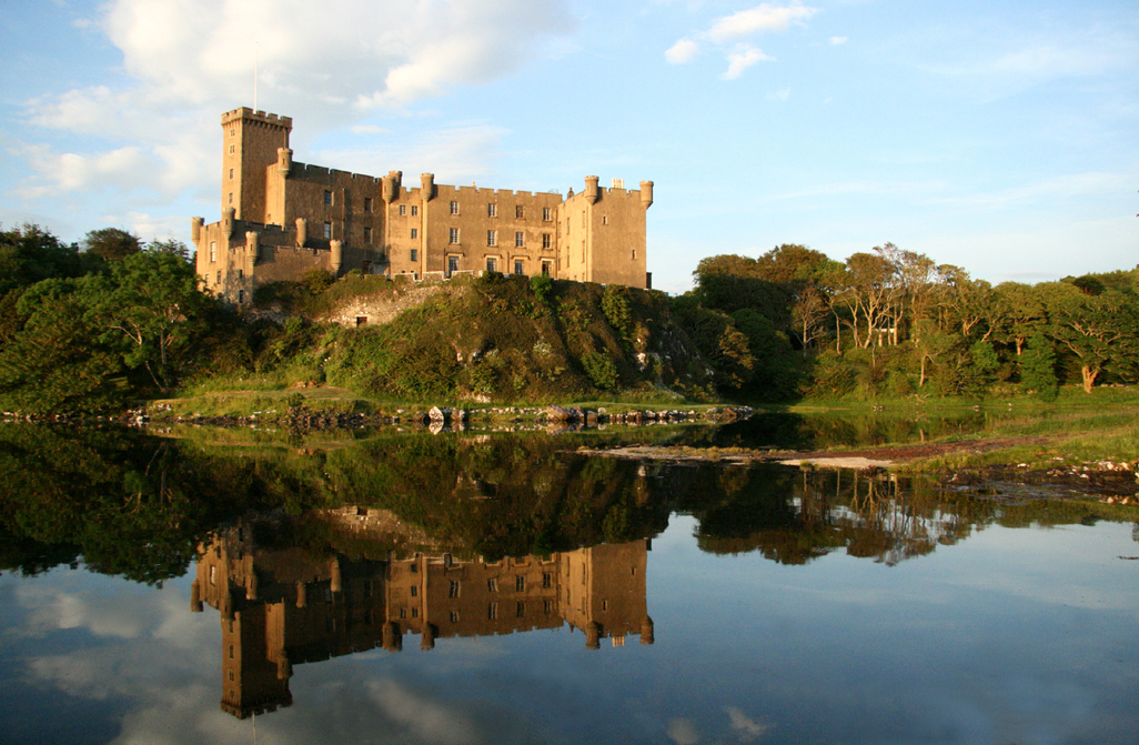 Dunvegan Castle & Gardens